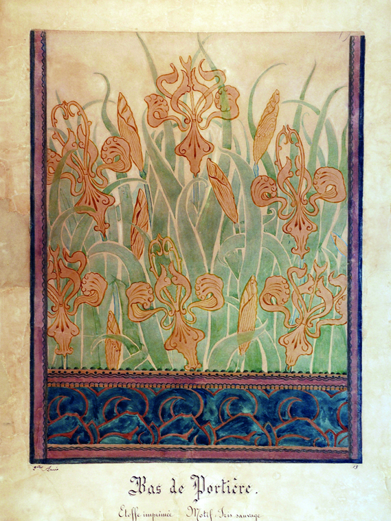 BAS_DE_PORTIÈRE_-_IRIS_SELVAGENS-ESTUDO_PARA_TECIDO-GUACHE_SOBRE_PAPEL-61x47-c.1901-MUSEU_NACIONAL_DE_BELAS_ARTES-RJ